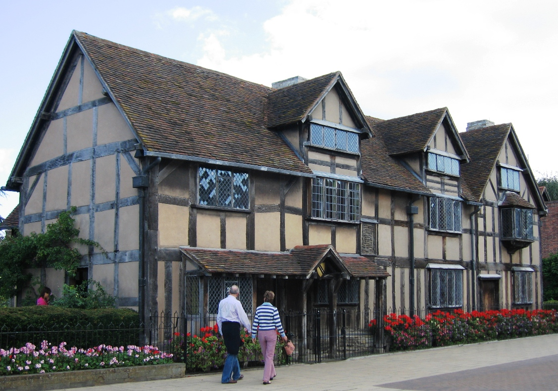 Willilam Shakespeares birthplace, Stratford-upon-Avon, Warwickshire, England.